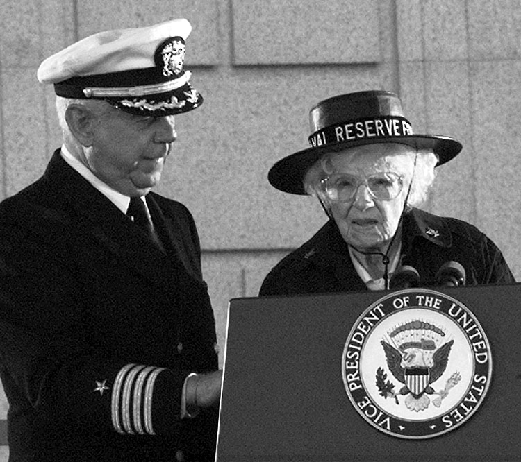 101-year-old Rita Mae Greene Hardin, assisted by her 73-year-old-son, speaks at the dedication ceremony for the Women in Military Service for America Memorial in front of Arlington National Cemetery in Arlington County, Virginia, in the United States, on October 17, 1997. Hardin served as a U.S. Naval Reserve volunteer in World War I.